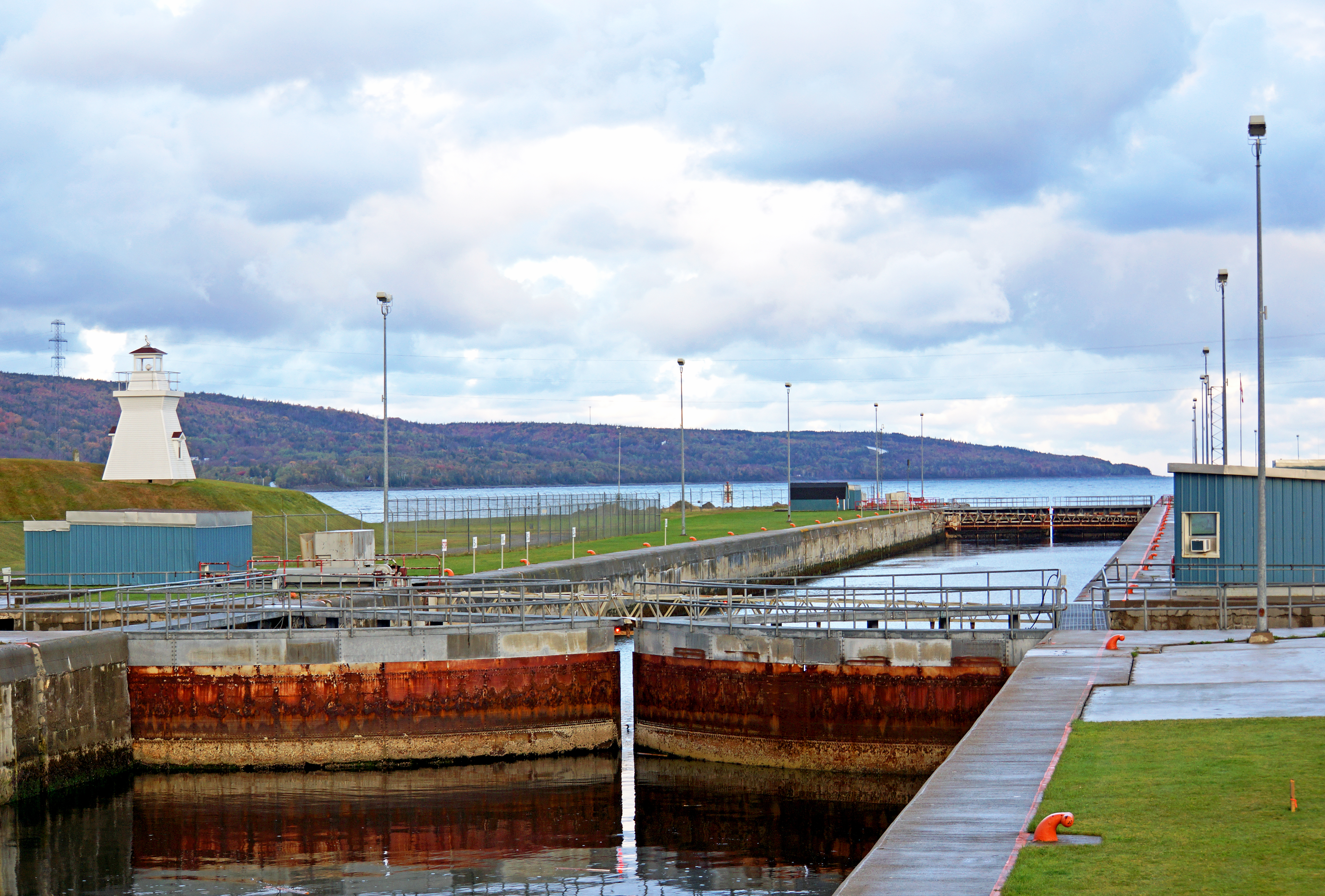 PLEASE, NO invitations or self promotions, THEY WILL BE DELETED. My photos are FREE to use, just give me credit and it would be nice if you let me know, thanks. The canal, constructed between 1953 and 1955, is 24 metres (78.7 ft) wide and 570 metres (1,870 ft) long with a single Seaway-max lock to account for tidal differences; "Seaway- max" means that any vessel capable of transiting the St. Lawrence Seaway will fit through the Canso Canal. The Rear Range Light on the left was built in 1963, there were two range lights but this is the only one still standing. The Front Range Light, was replaced by a skeleton tower in 1991. This light is on top of a small hill on the Cape Breton side of the Canso Causeway, and beside the Canso Canal. This is the only lighthouse located in a cemetery in Canada, and probably the world, making it very unique. This area contains six headstones for seven people. The oldest headstone is for Douce Elizabeth Belhache aged 6 years and 8 months who died on July 23, 1795. Other early settlers buried there are James and Christena Skinner, Angus and Jane Grant, Charles Fox and his daughter Mary. She died in 1880 and was the last person buried on the piece of land beside the Causeway known both as Belhache Point and MacMillan’s Point.